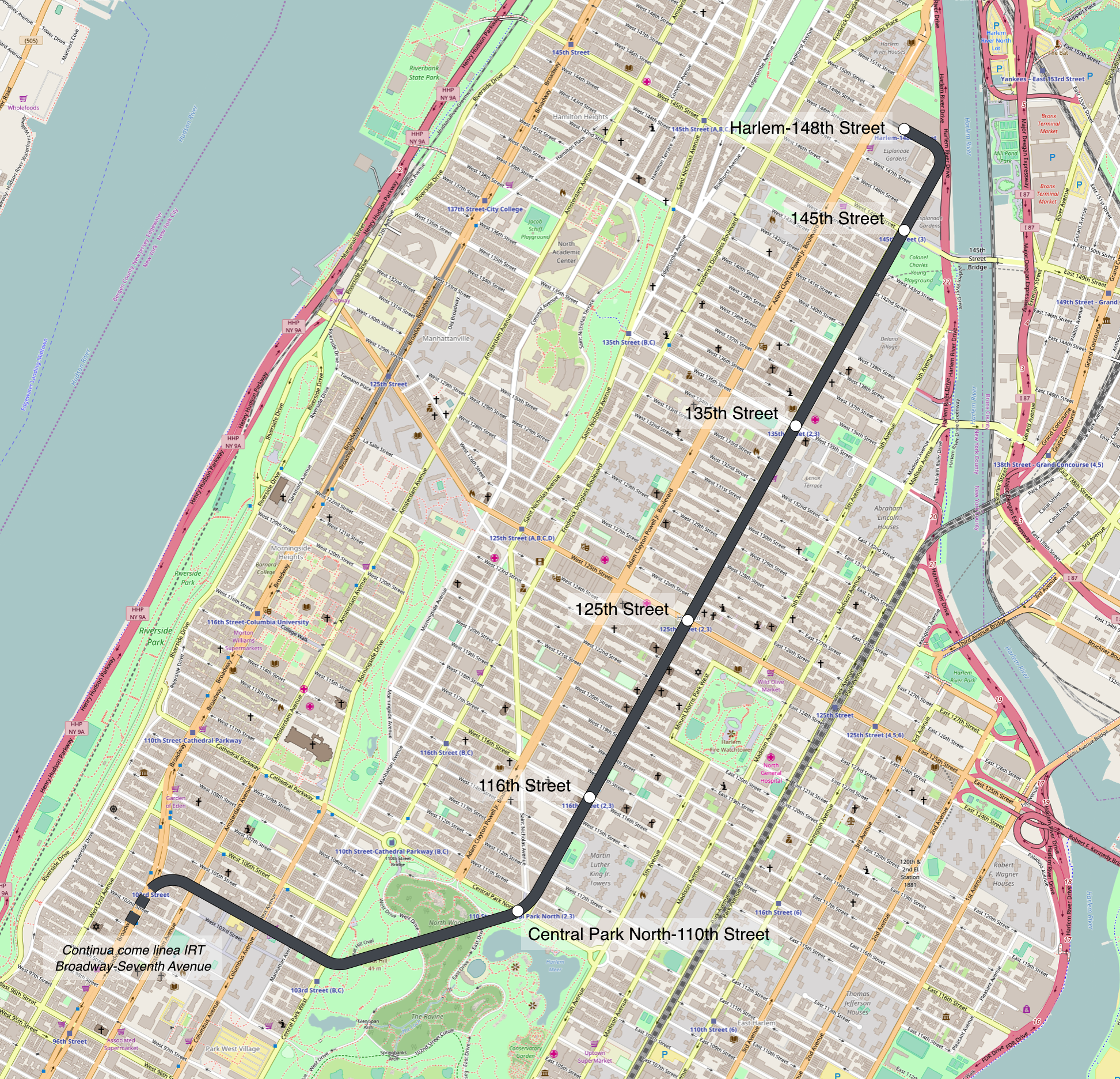 IRT Lenox Avenue Line Map